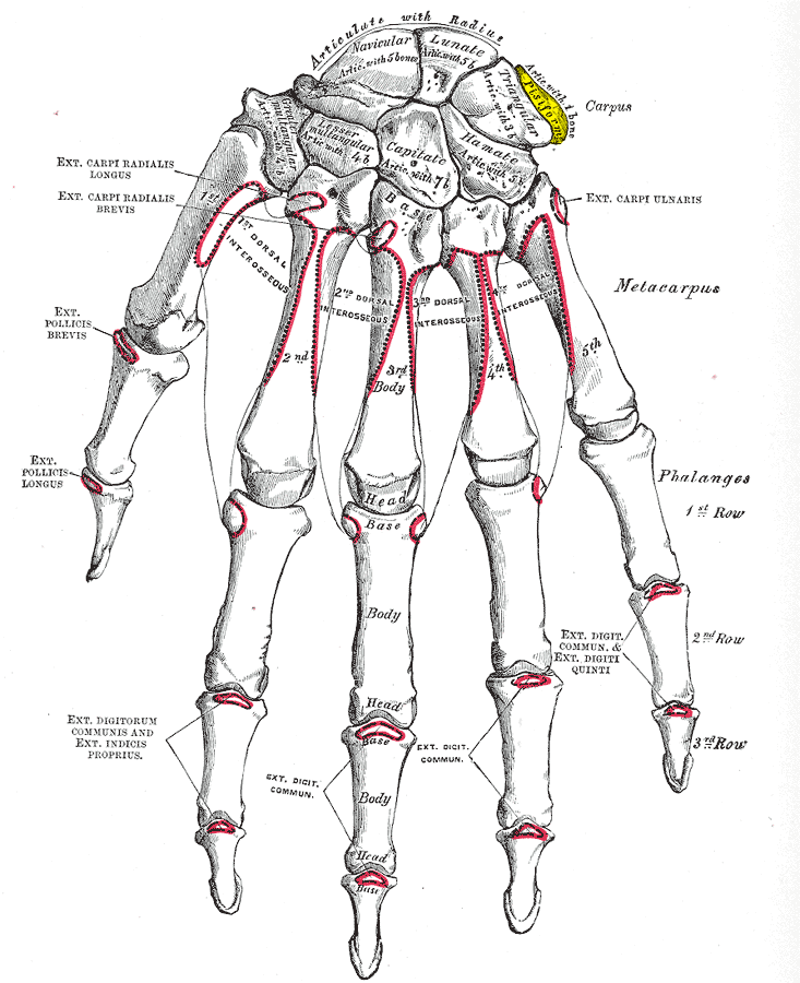 Bones of the left hand. Dorsal surface.